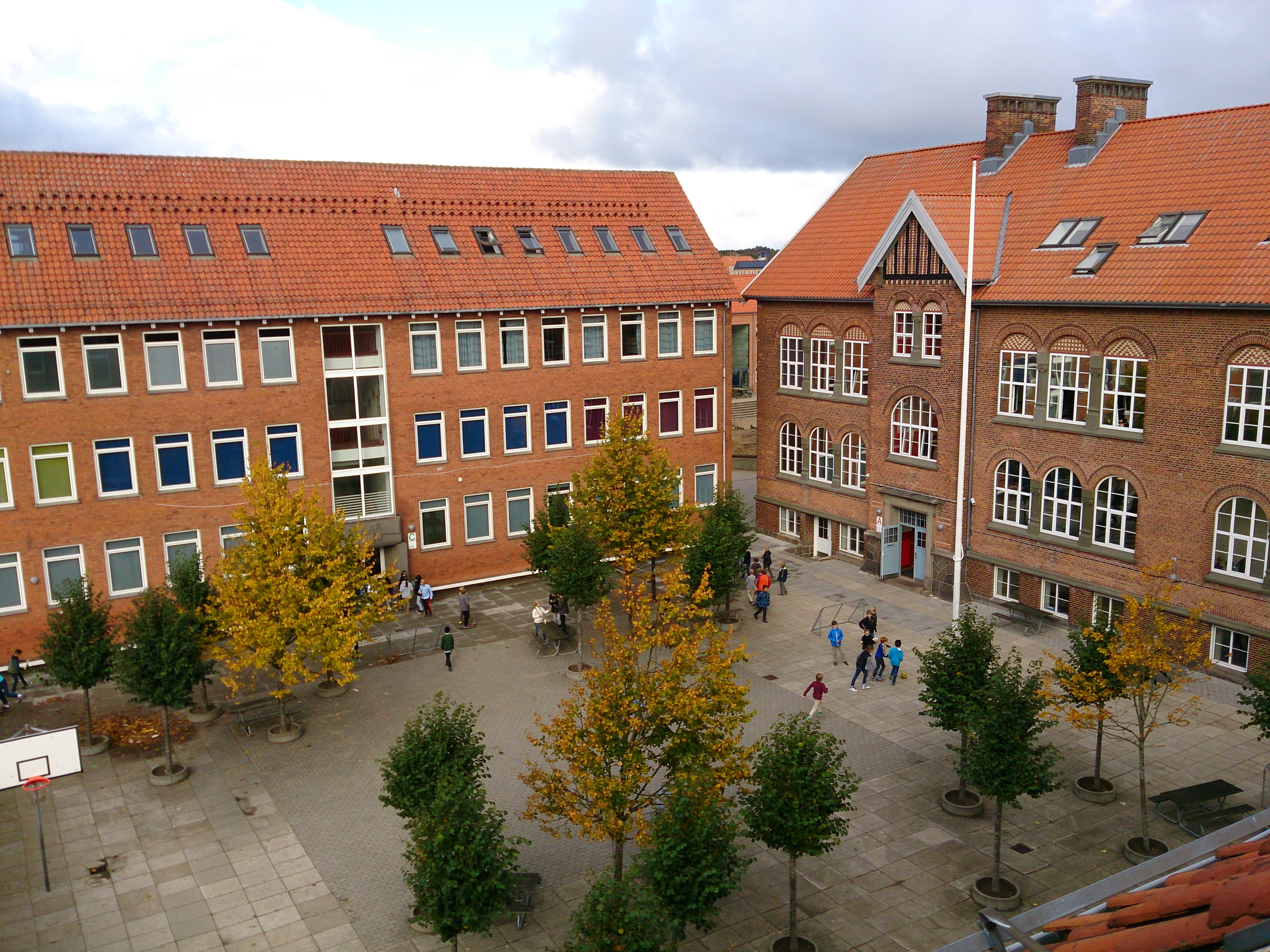 Hjørring Private Realskole in Denmark